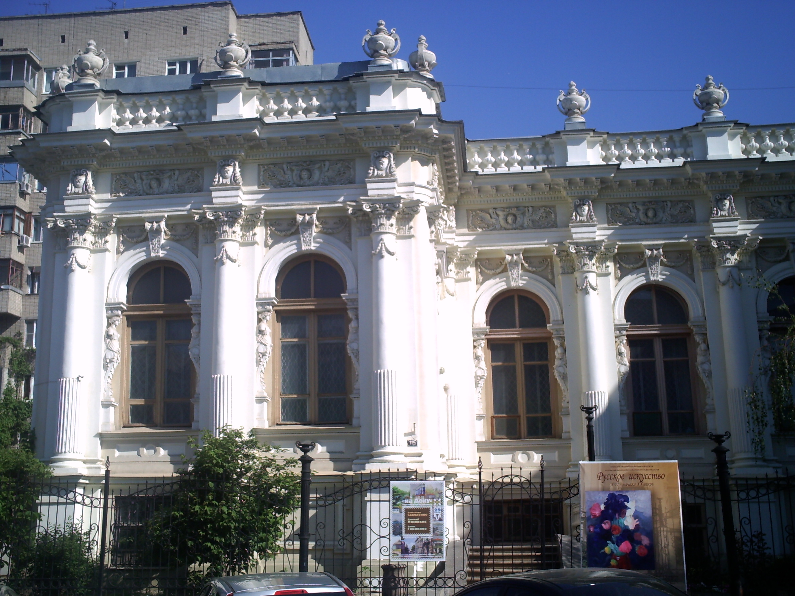 Foto of the Rostov Region museum of Arts